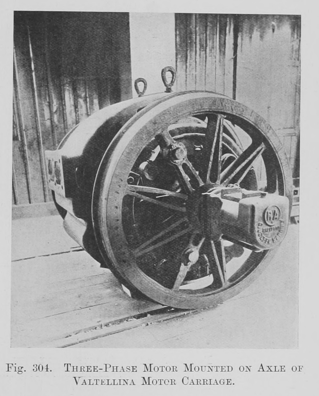 see image title - first number is figure or diagram number. See list of illustrations in source for page number in source - relevent text content is near to image in the source